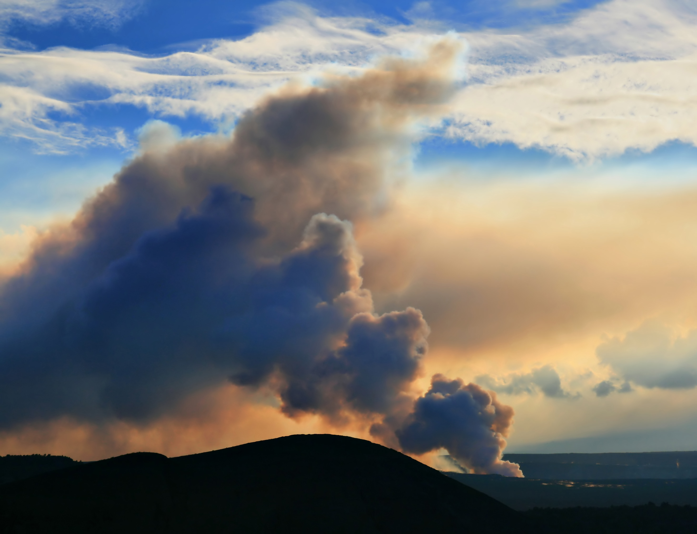 Sulfur dioxide emissions from the Halema`uma`u vent, Kīlauea generates vog